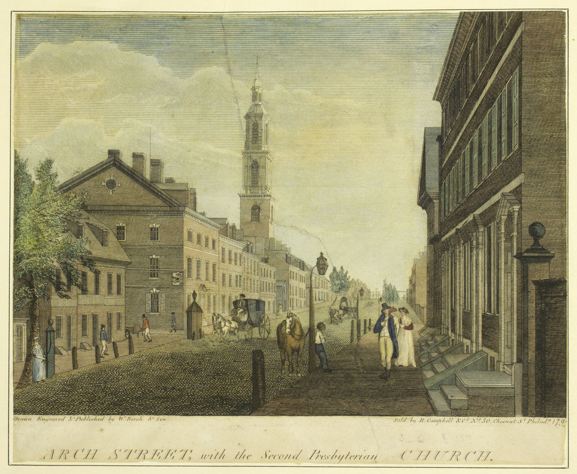 Street scene showing Arch Street between Third and Fourth Streets including the Second Presbyterian Church. Depicts many well-dressed pedestrians walking down the sidewalks, a horse-drawn carriage and cart traveling up the cobblestone street, and an African American boy leaning against a lamp post upon which a saddled horse is hitched. The Second Presbyterian church, ministered by New Light Gilbert Tennent, was built between 1750 and 1753 after the split between Old and New Light Presbyterians. It was demolished around 1838. p-2276-9 Drawn, Engraved & Published by W. Birch & Son. 1799. Link to record on ImPAC, the Library Company’s digital collections catalog